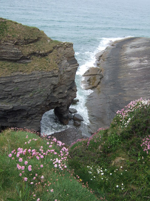 Den's Door This is another of the massive chunks of rock strewn below the cliffs of St Bride's Bay by the erosion and shifting of this unstable coastline. Den's Door has two natural arches, of which one can be seen here; to the right is the southern aspect of the monoclinally-folded Sleek Stone. The cushions of flowering thrift sometimes conceal the hazards of the eroded cliff edge.